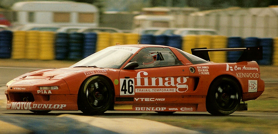 Kremer Racing drivers competiting in a Honda NSX in the 1994 24 Hours of Le Mans